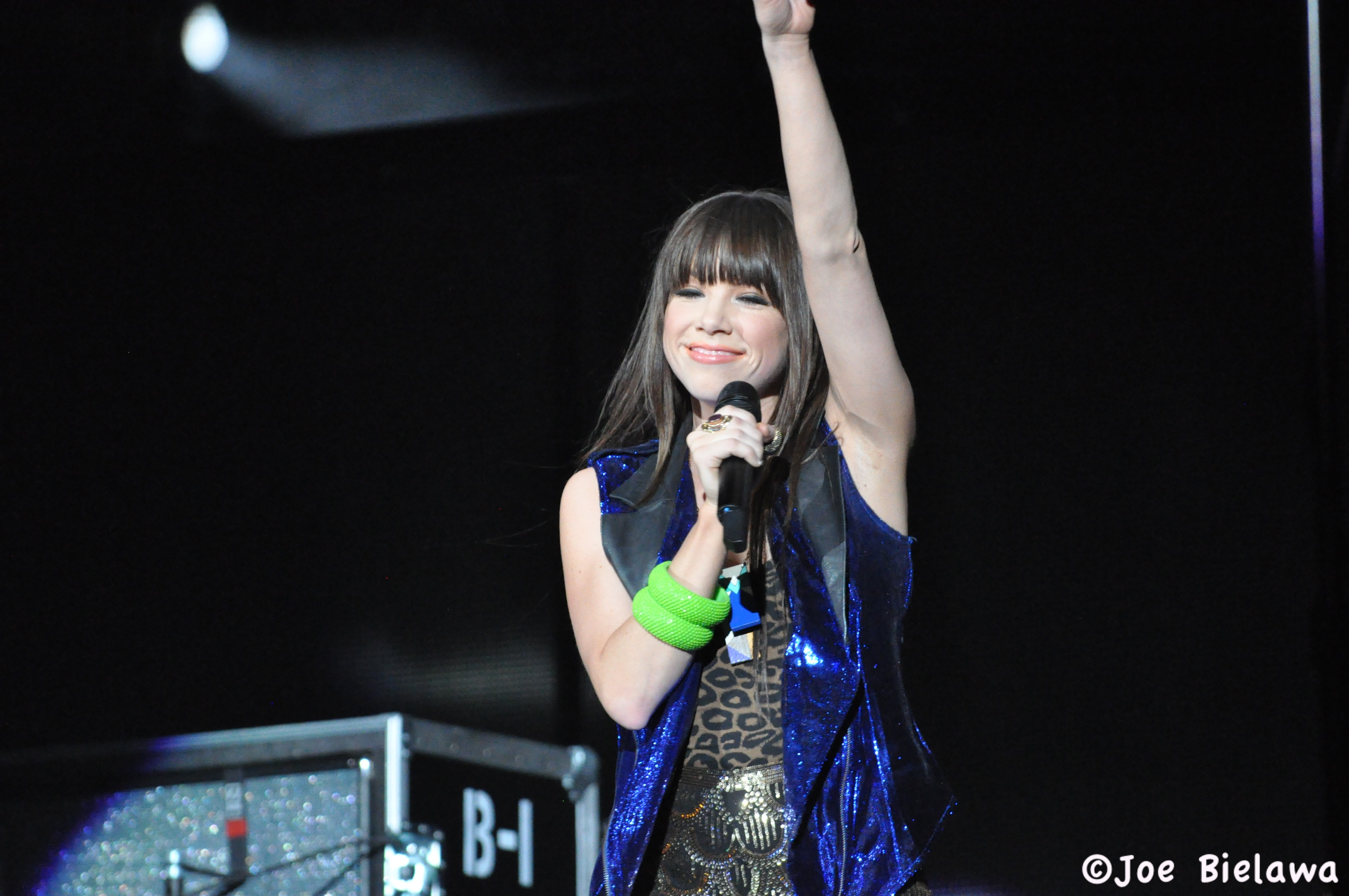 Carly Rae Jepson-DSC_0189-10.20.12